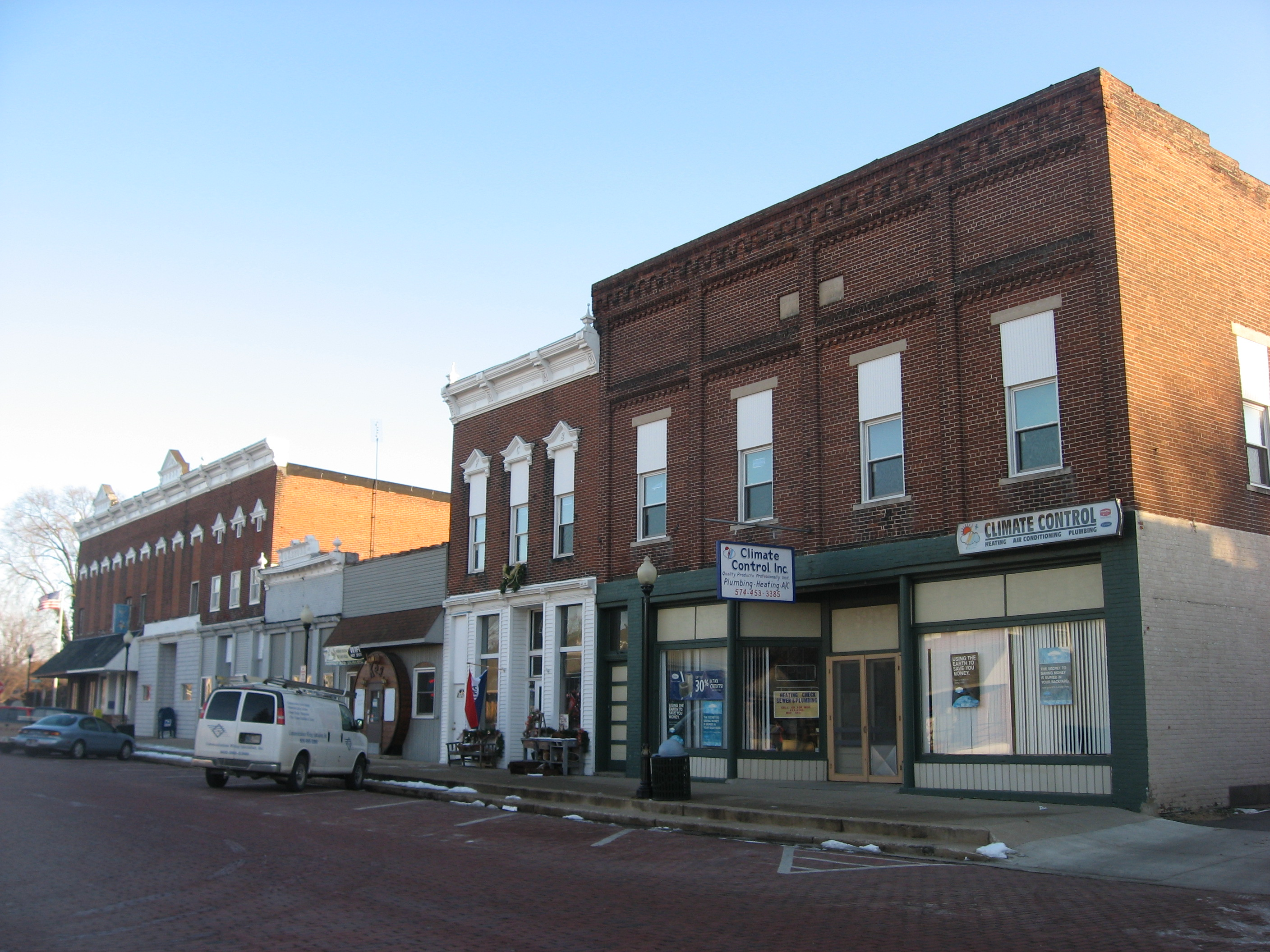 Buildings on the southern side of the first block of W. Van Buren Street in Leesburg, Indiana, United States. Built in 1890, 1907, and 1915, this block is a part of the Leesburg Historic District, a historic district that is listed on the National Register of Historic Places.